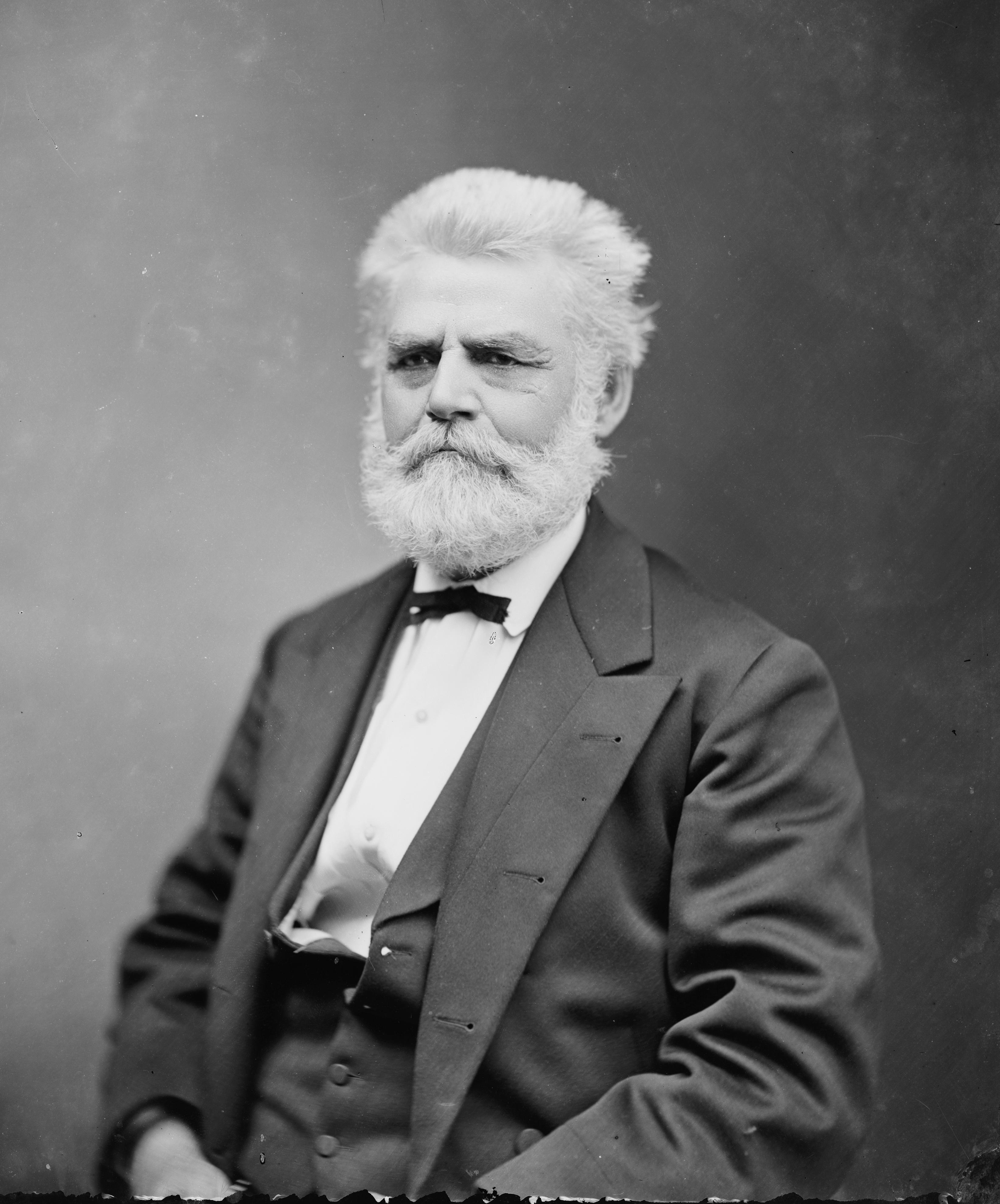 David H. Armstrong. Library of Congress description: "Armstrong, Hon. D.H. of MO."